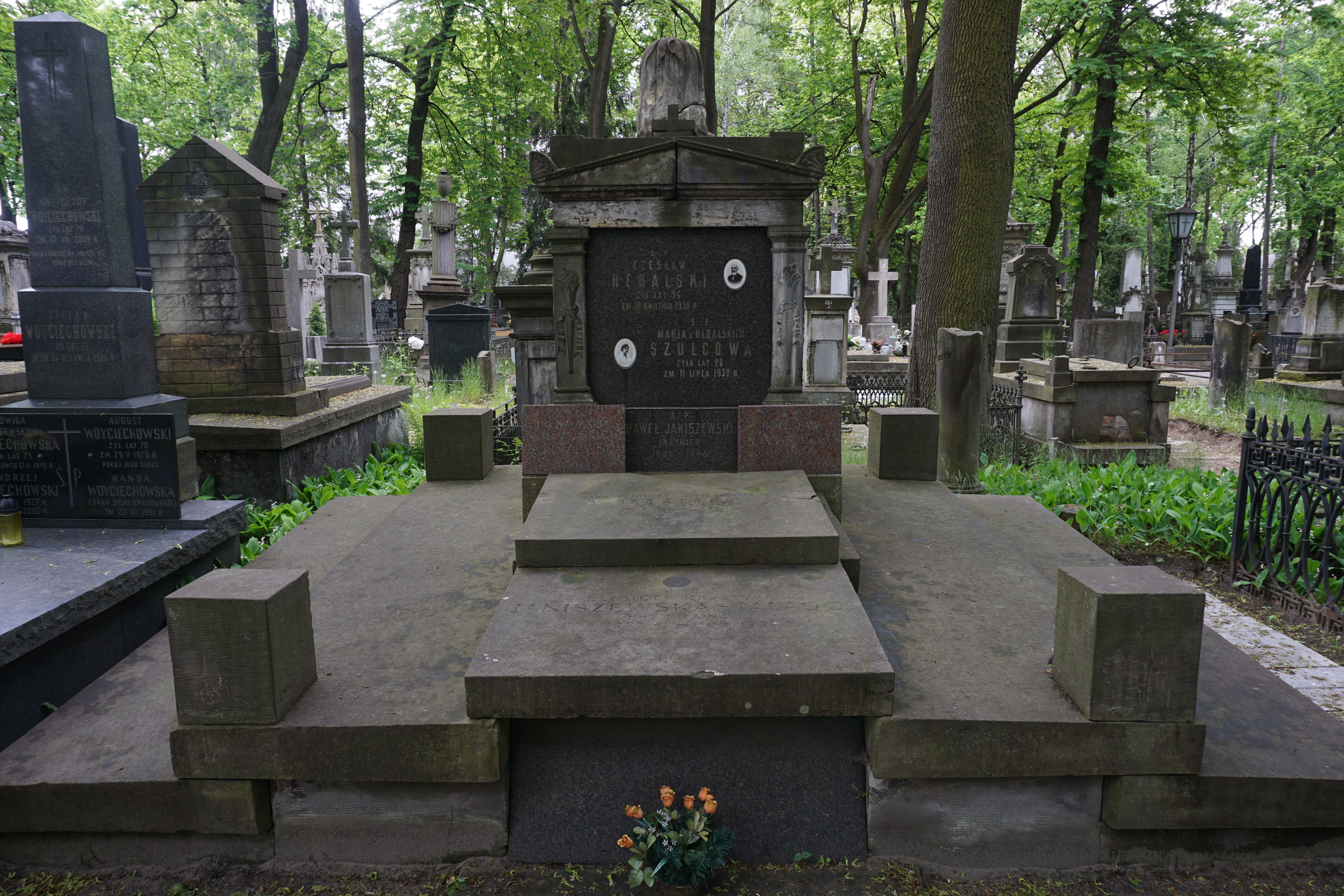 The grave of Bolesław Talago at the Powązki Cemetery (section 15, row 6, grave 22, 23, 24)